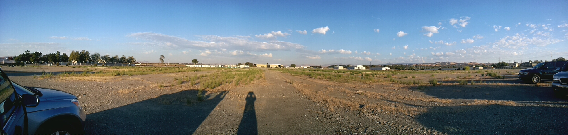 Panorama of the Kiewit industrial site taken during the East Pleasanton Specific Plan Task Force field trip. Old Kiewit buildings can be seen to the right. The Pleasanton Garbage Service transfer station can be seen in the middle. To the left across Busch Rd. is the City of Pleasanton's Operations Service Center.